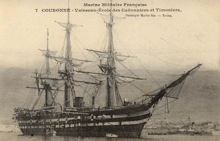 The frigate Couronne (1863)